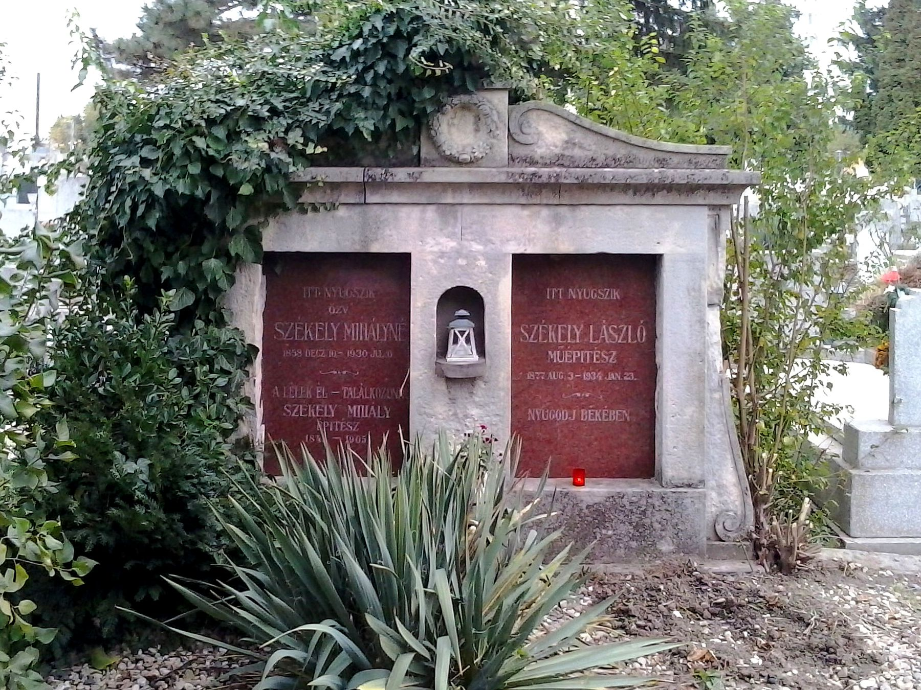 Tomb of László Székely in Timișoara, Romania